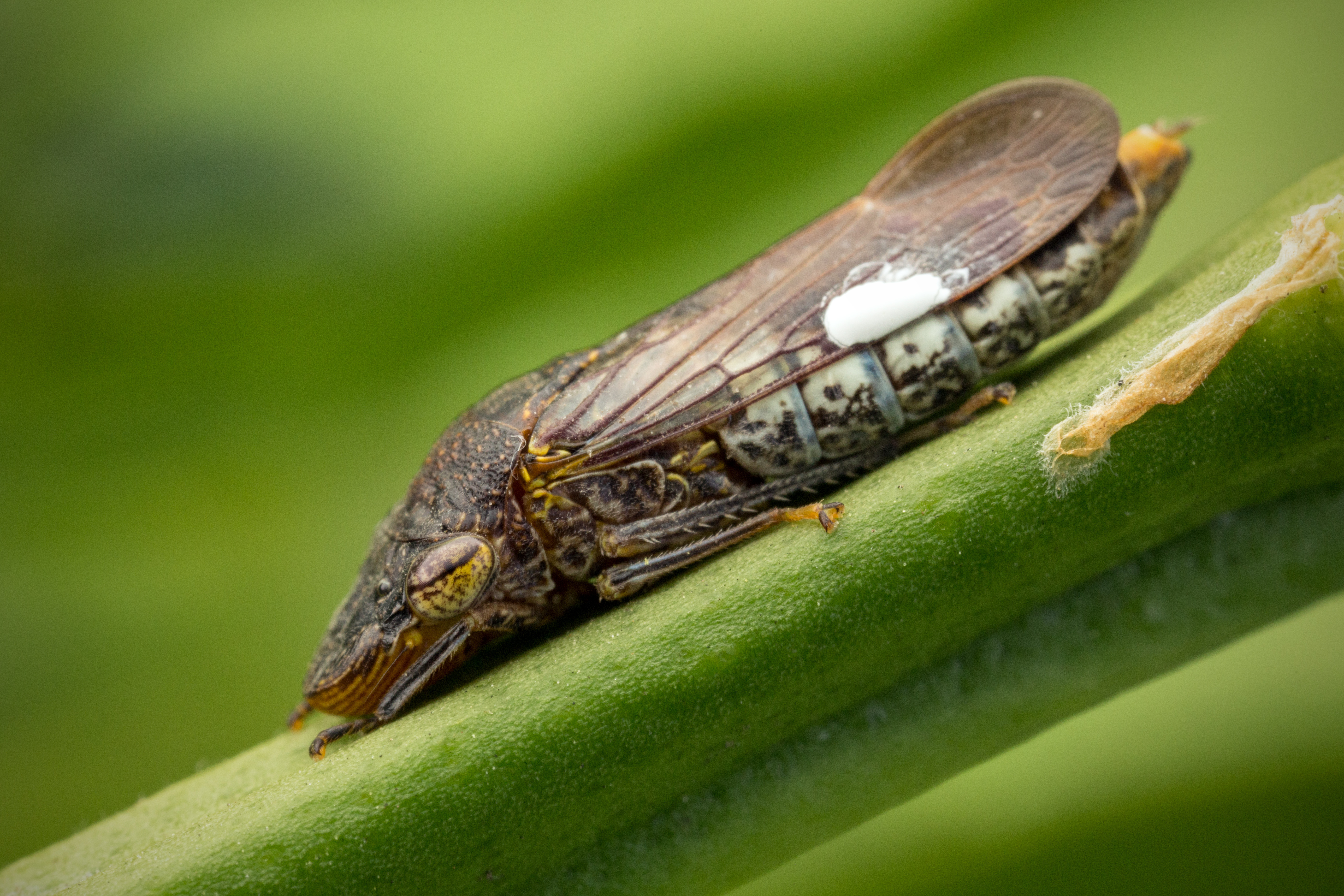 The white dots on the wings are a liquid containing a great number of microscopic structures called brochosomes. The insect paints these on her eggs, where they may serve to protect against dessication or predation. Austin, Texas, USA. Public domain image by Alex Wild, taken as part of the Insects Unlocked project at the University of Texas at Austin.